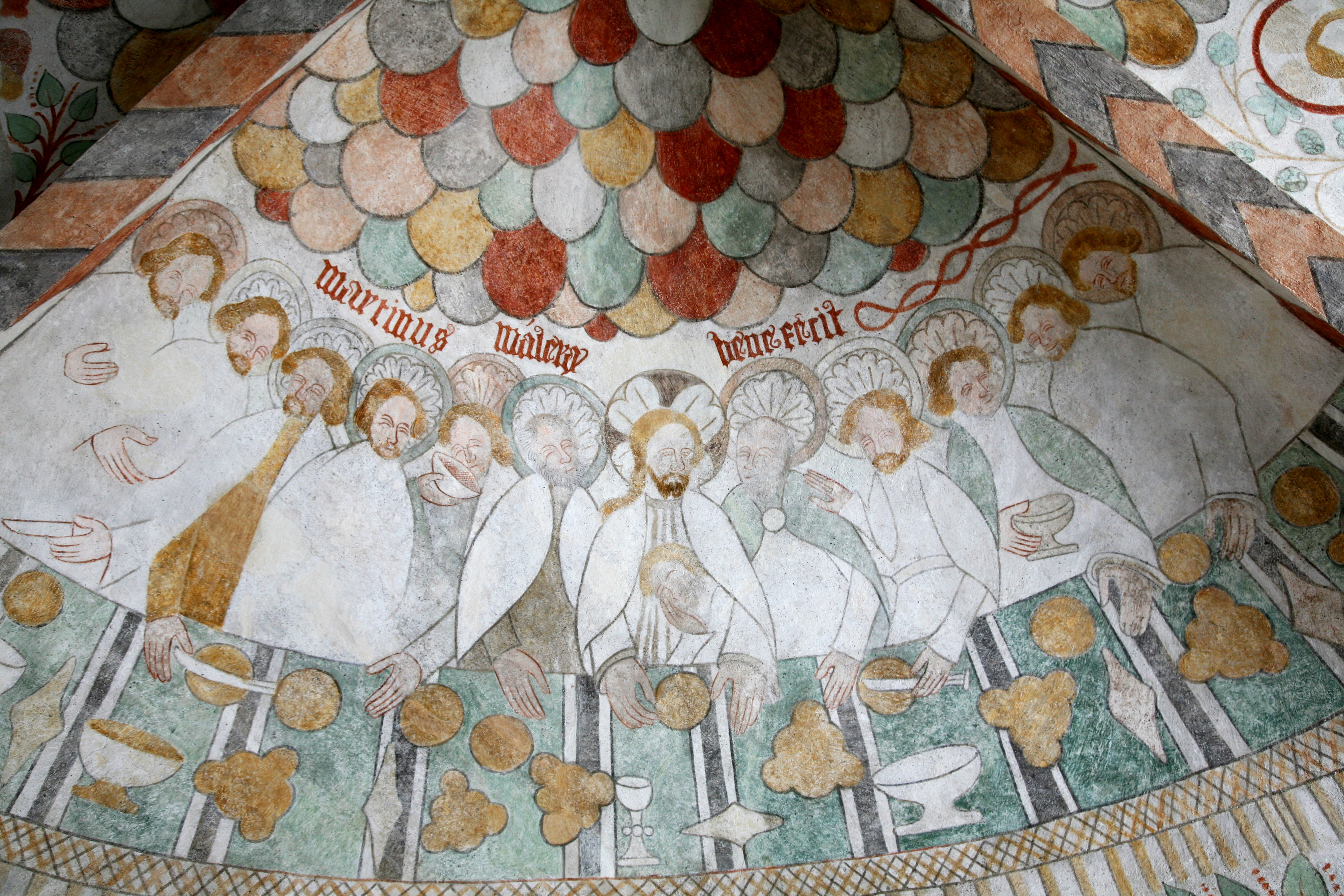 Fresco from 1400-10 by Martin Maler in Gerlev church near Slagelse, Denmark